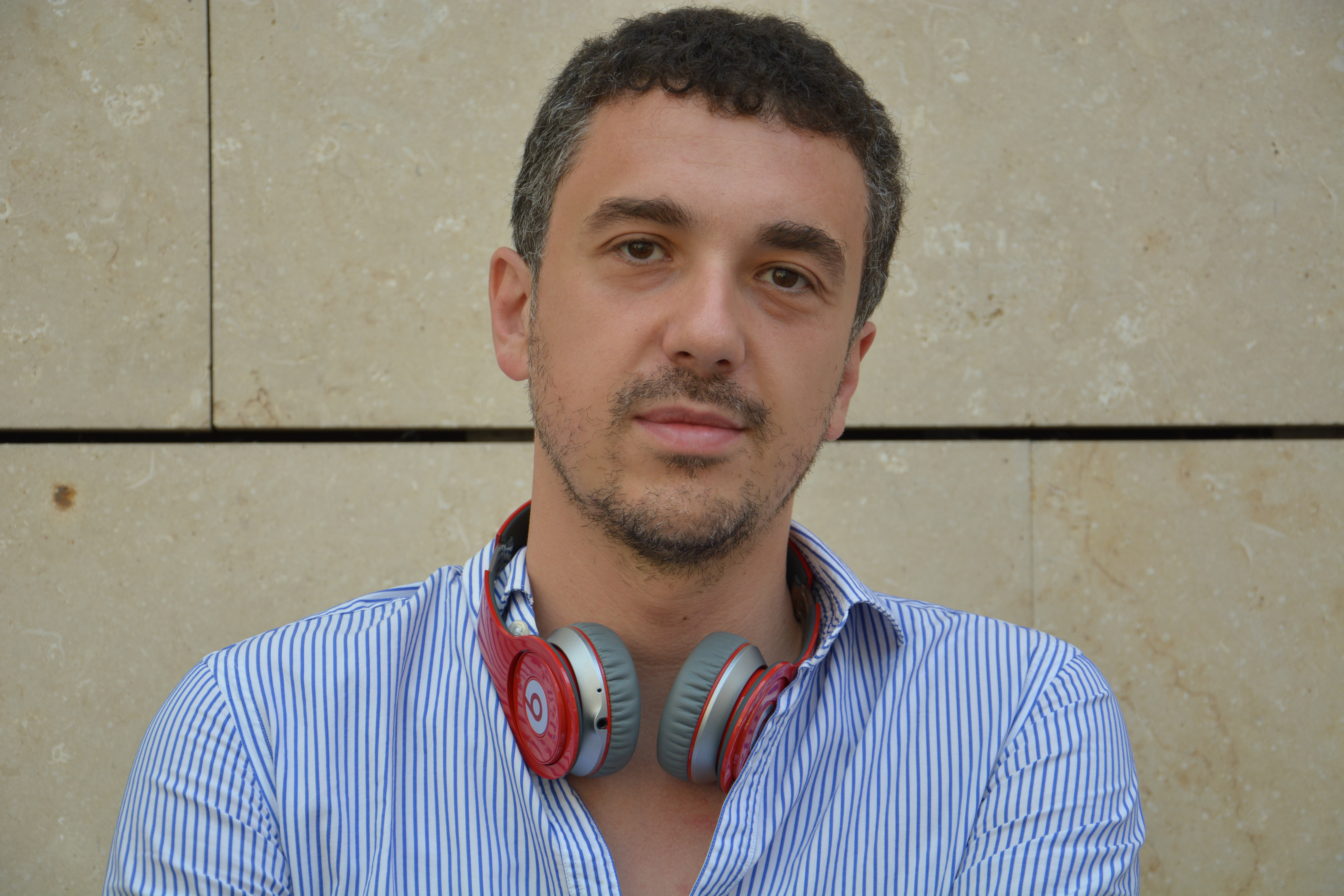 Gianluigi Ricuperati